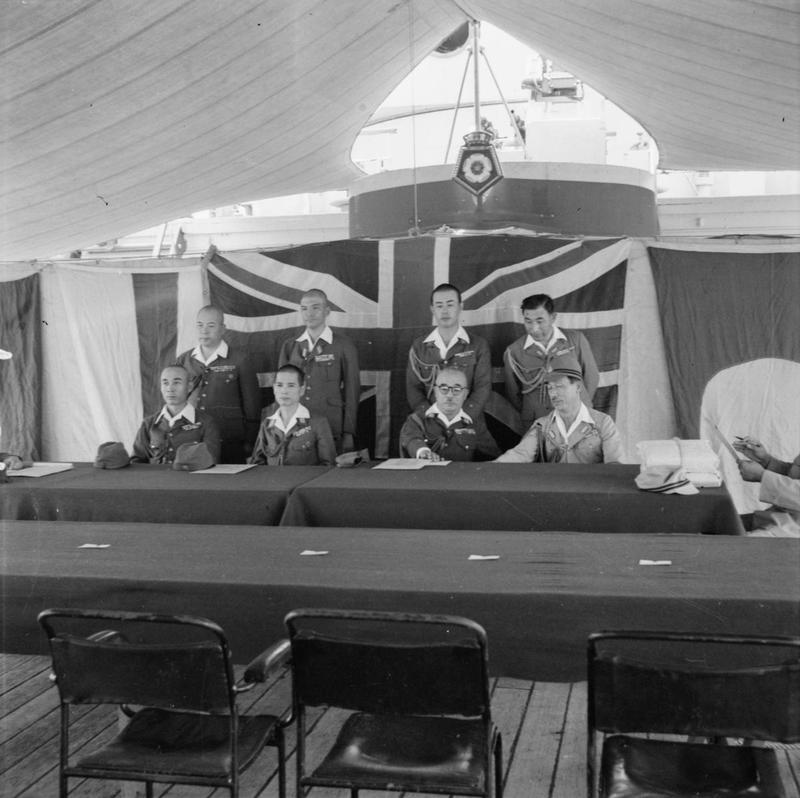 The Allied Occupation of Java, 1945 Japanese military representatives on board HMS CUMBERLAND for a conference to discuss terms by with Allied forces would take control of Java, Indonesia. The officers are (front row l to r): Colonel Obana, Major General Nishimura, Major General Yamamato and Rear Admiral Meada, (standing l to r): Lieutenant Colonel Momova, Lieutenant Colonel Miyamoto, Captain Nagasuki and Major Yamagucki.